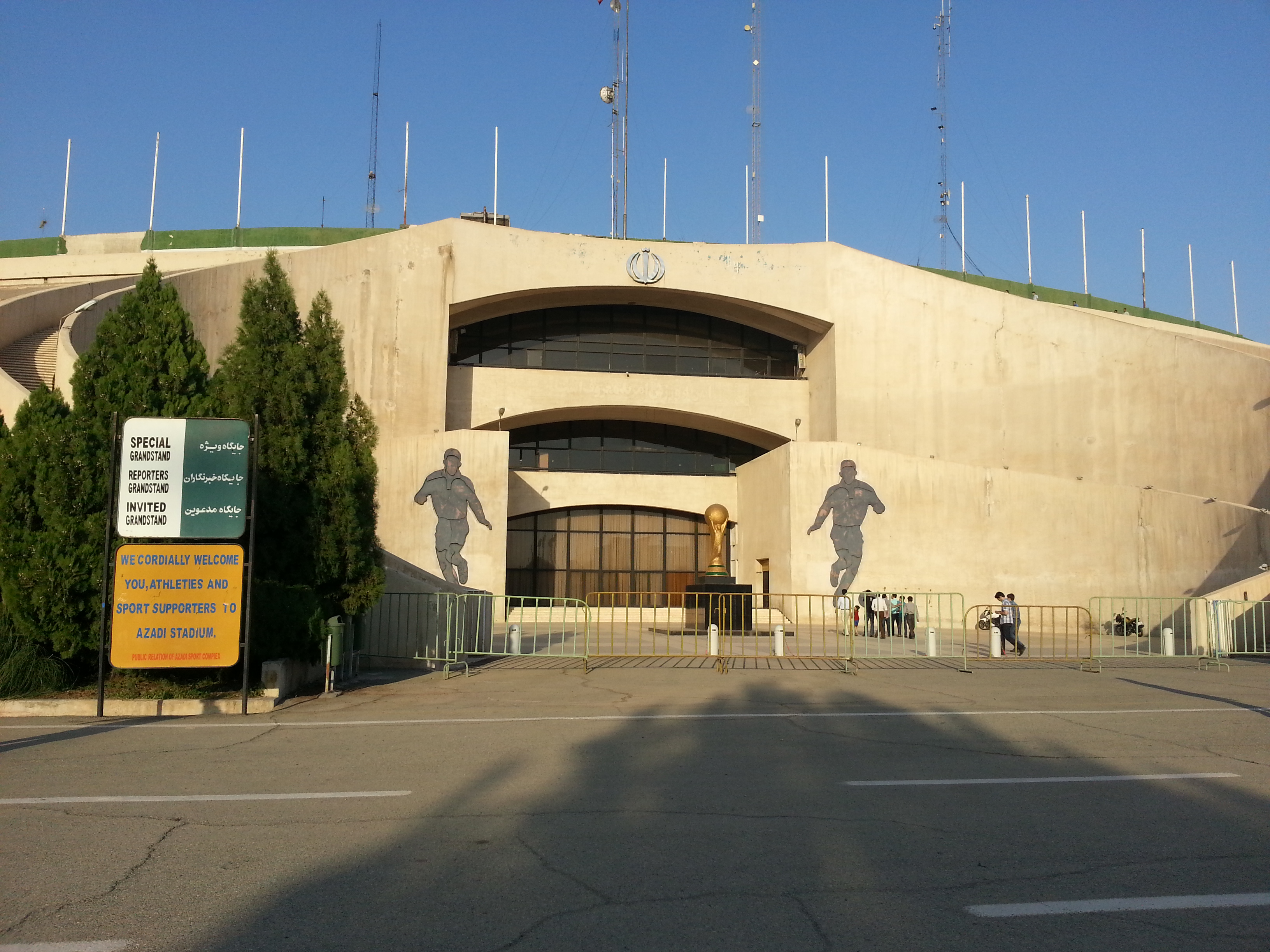 Azadi Stadium in Tehran, outside.